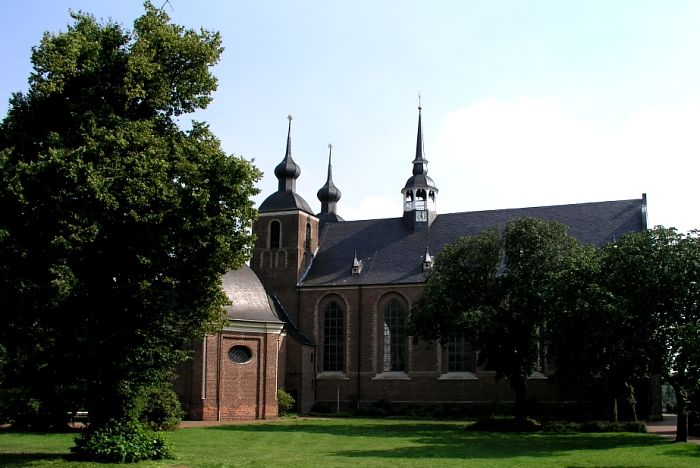 Cloister Kamp, Kamp-Lintfort